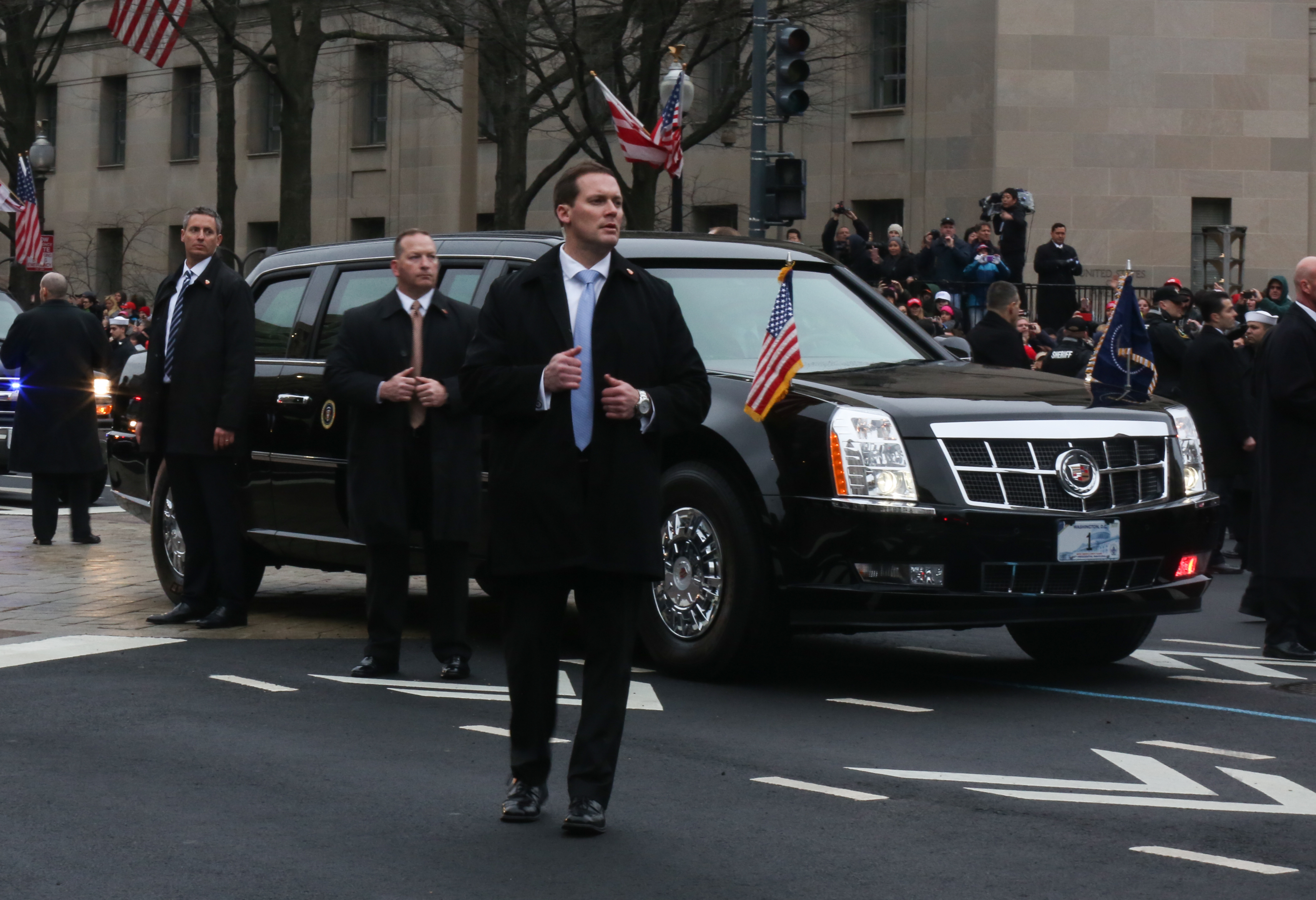 The Presidential Motorcade is escorted down Pennsylvania Avenue after the Inauguration of Donald J. Trump as the 45th President of the United States in Washington, D.C., Jan. 20, 2017. More than 5,000 military members from across all branches of the armed forces of the United States, including Reserve and National Guard components, provided ceremonial support and Defense Support of Civil Authorities during the inaugural period. (DoD photo by U.S. Army Pvt. Genesis Gomez) Unit: Joint Task Force - National Capital Region 58th Presidential Inauguration DVIDS Tags: POTUS; Washington D.C.; JTF-NCR; Inauguration2017; President Donald J. Trump